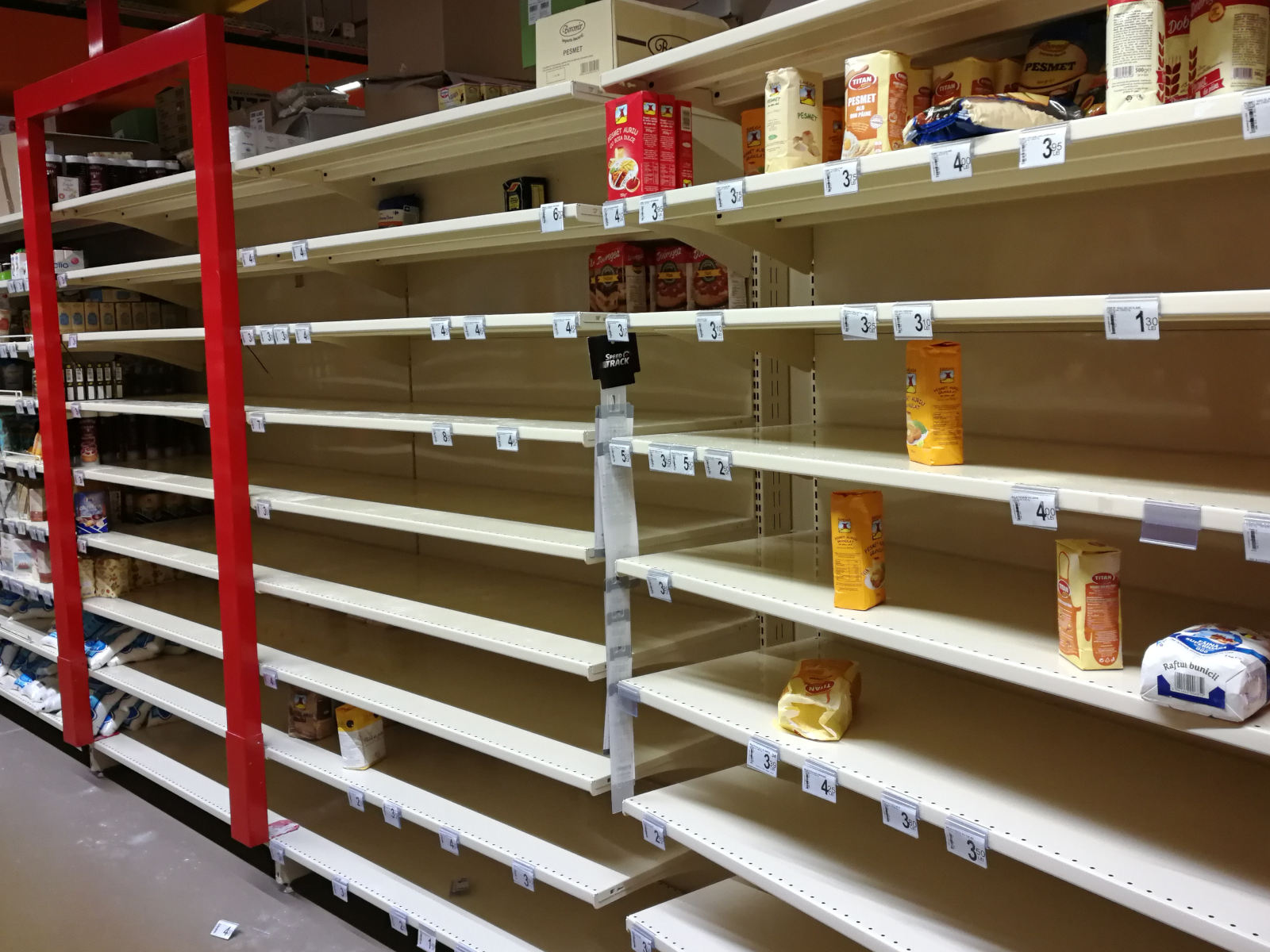 Empty shelves in a Carrefour supermarket, Brasov, March 2020